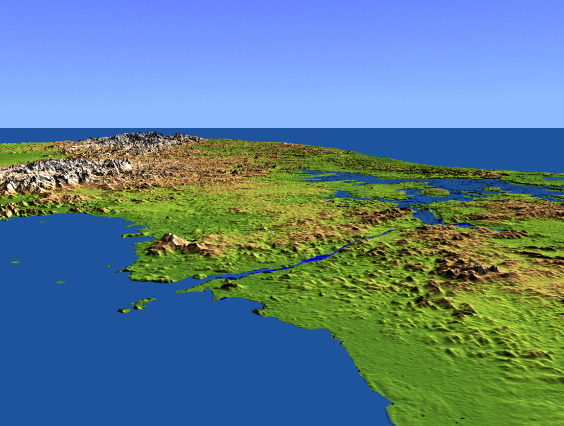 Panama Canal, courtesy NASA View looking west from just east of Panama City at the edge of the Gulf of Panama on the Pacific side. At this point Panama trends north east so that Colon, the Atlantic entrance, is slightly west of Panama City on the Pacific Ocean.